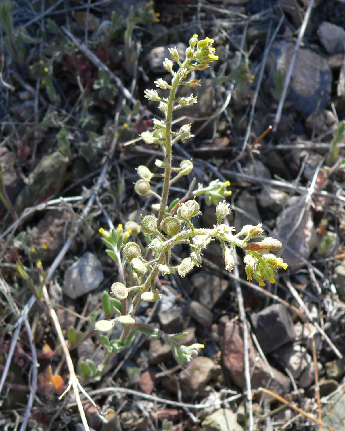 Alyssum simplex at Willow Spring of Willow Creek, Cold Creek area, Spring Mountains, southern Nevada (elev. about 1800 m)